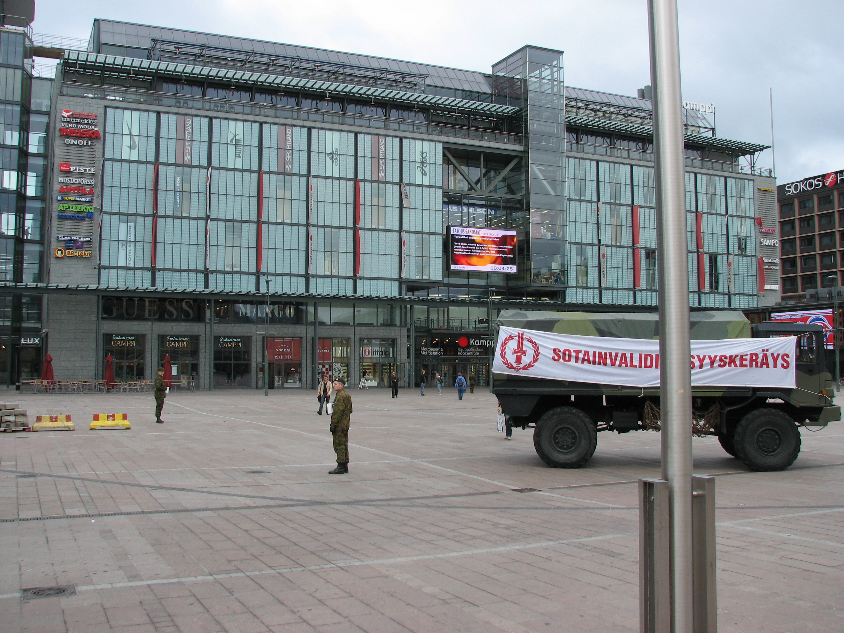 The Kamppi Centre from the outside, viewed from the Narinkka square. In the foreground, a charity collection for the Finnish World War II injured is taking place.